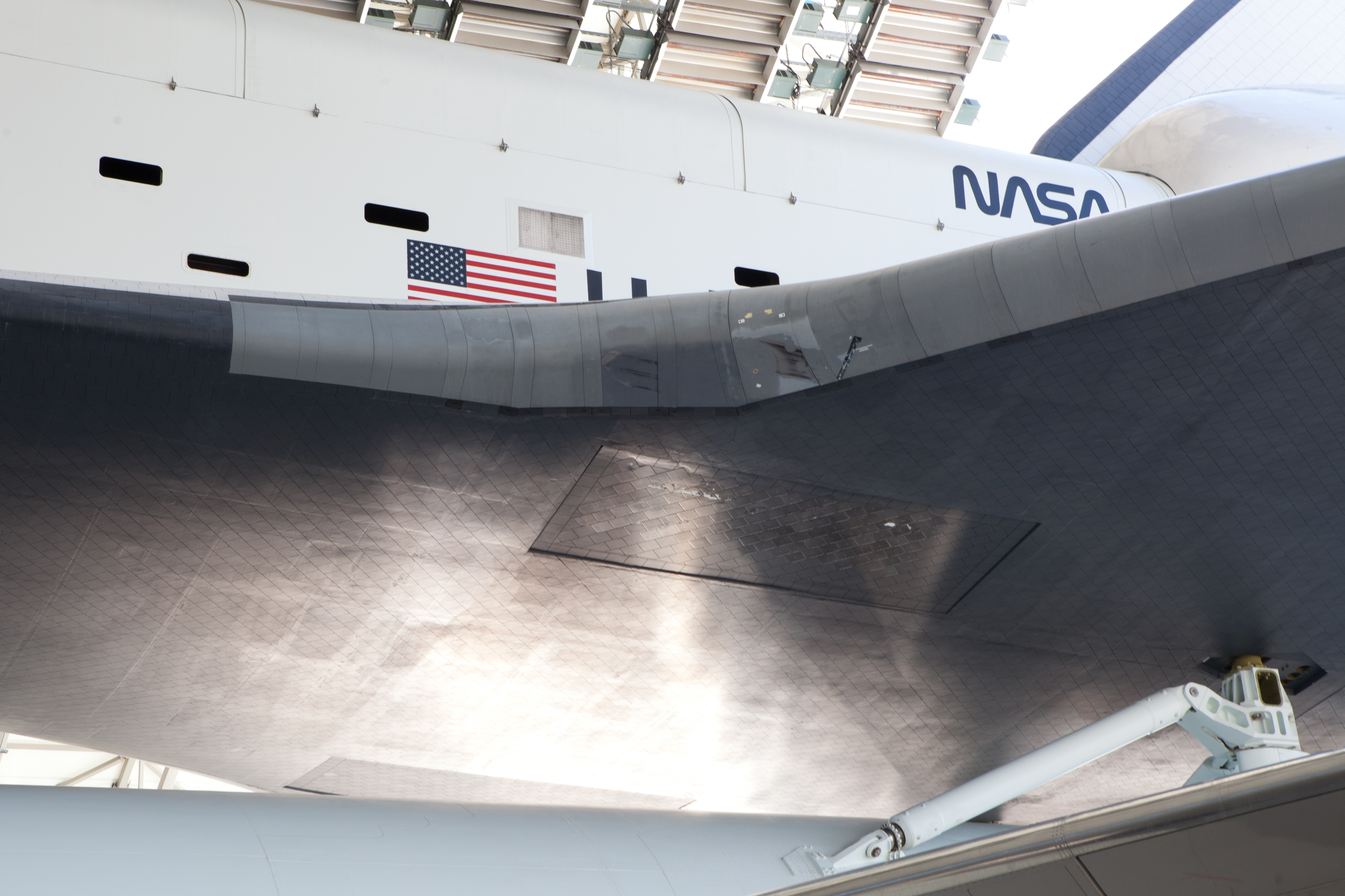 Space Shuttle Enterprise's damaged wing leading edge from tests following the Columbia accident.